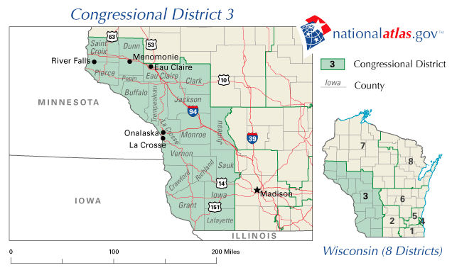 Map of Wisconsin's 3rd congressional district. Downloaded from and converted to PNG.